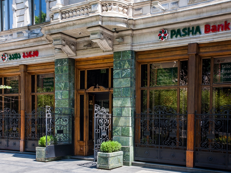 PASHA Bank Georgia HO